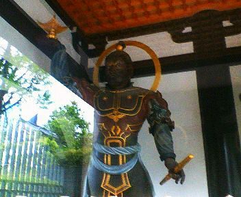 A statue of Tamonten in Seishoji temple.He is member of four guardian gods.